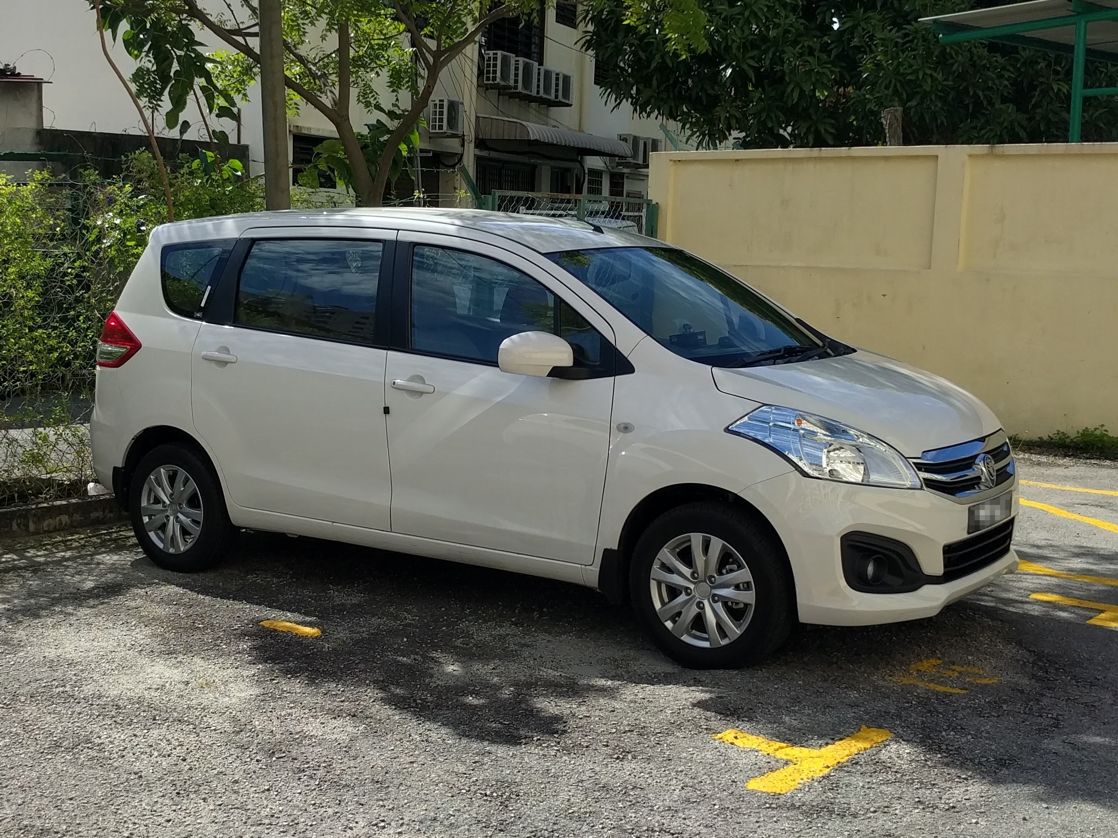 Cotton White Proton Ertiga Spotted in Pulau Pinang